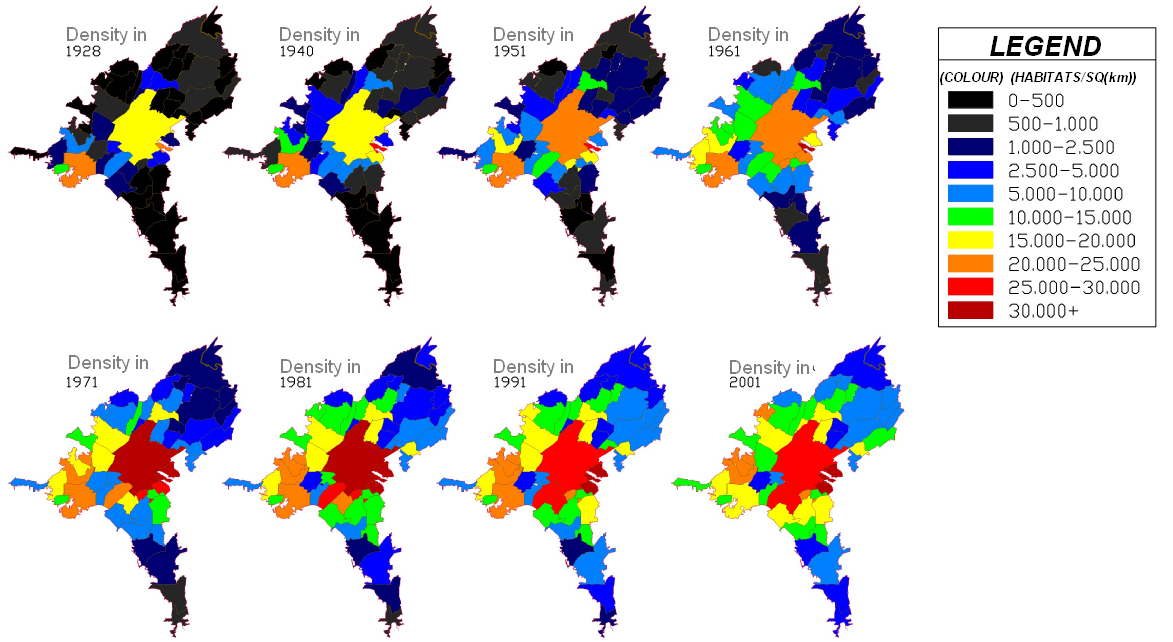 The evolution in metropolitan area of Athens. The borders show the municipalities inside the larger area of Athens. This work has been done according to the data of the Greek censuses per decade.